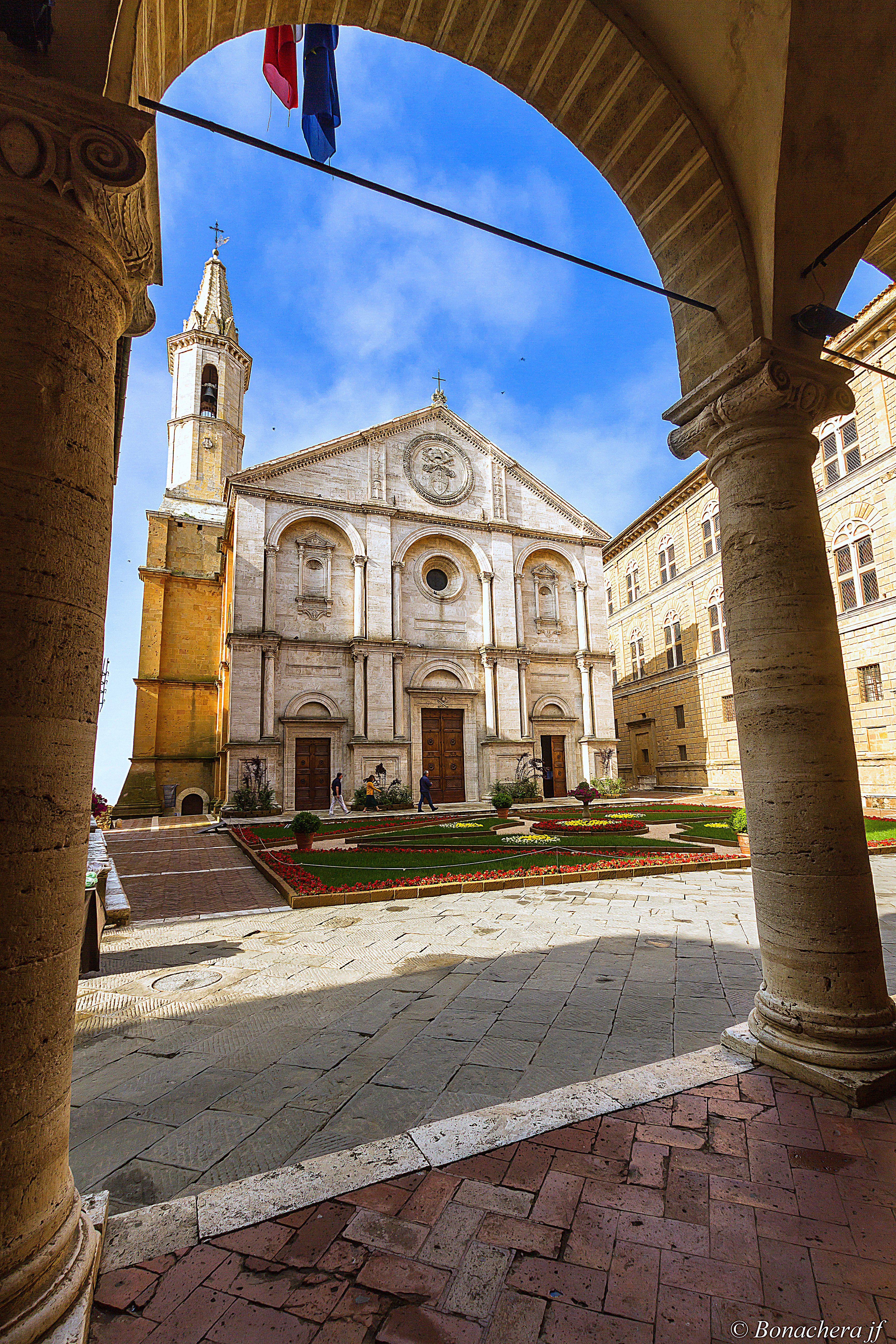 La cathédrale prise lors d'une fête des fleurs, depuis les arcades du palazzo communale